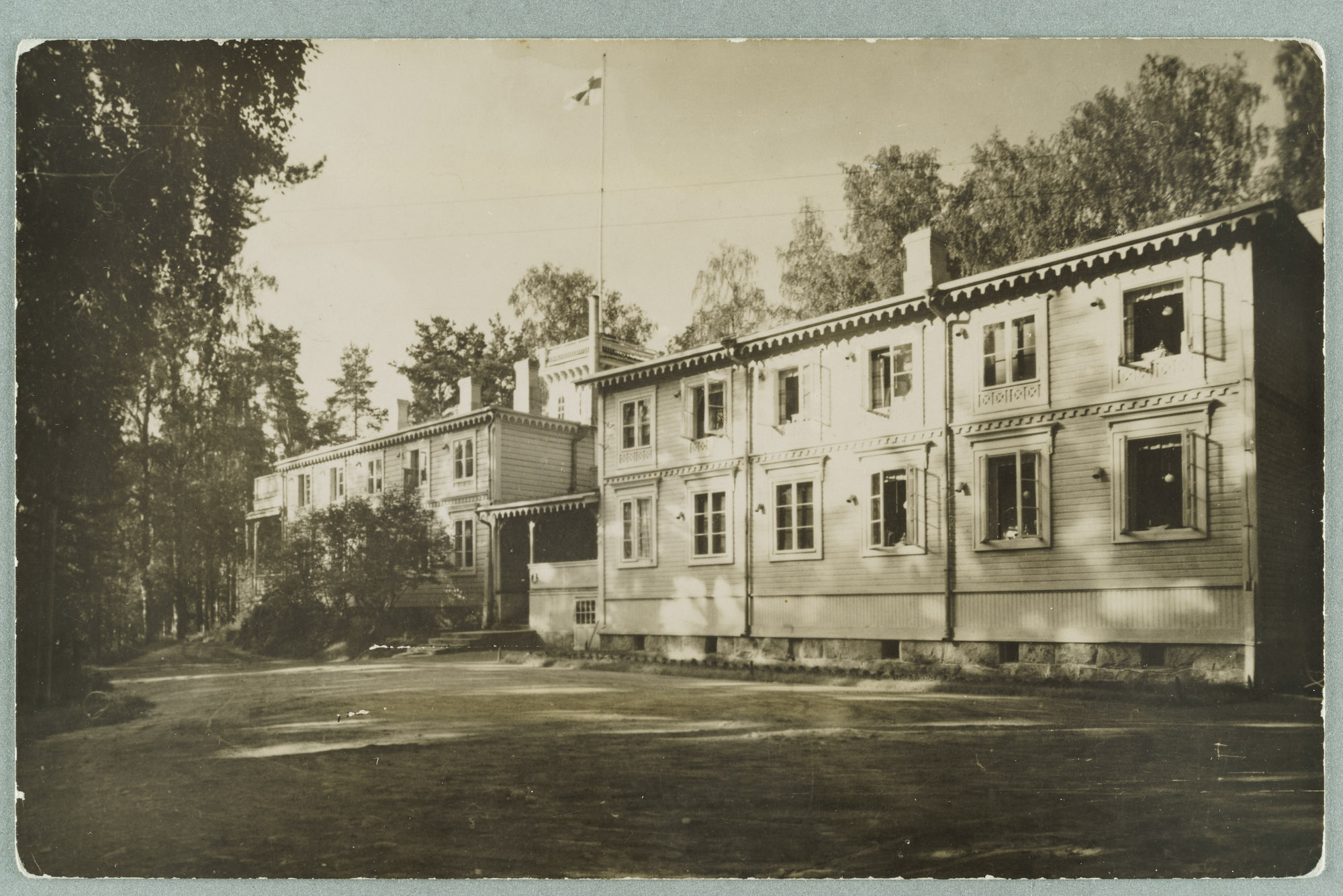 State Hotel, Punkaharju, 1940s